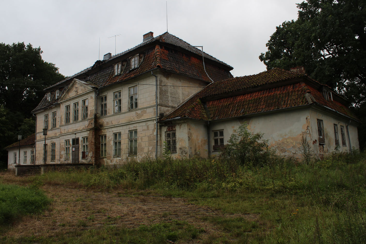 Palace in Bęsia, woj. warmińsko-mazurskie, Poland